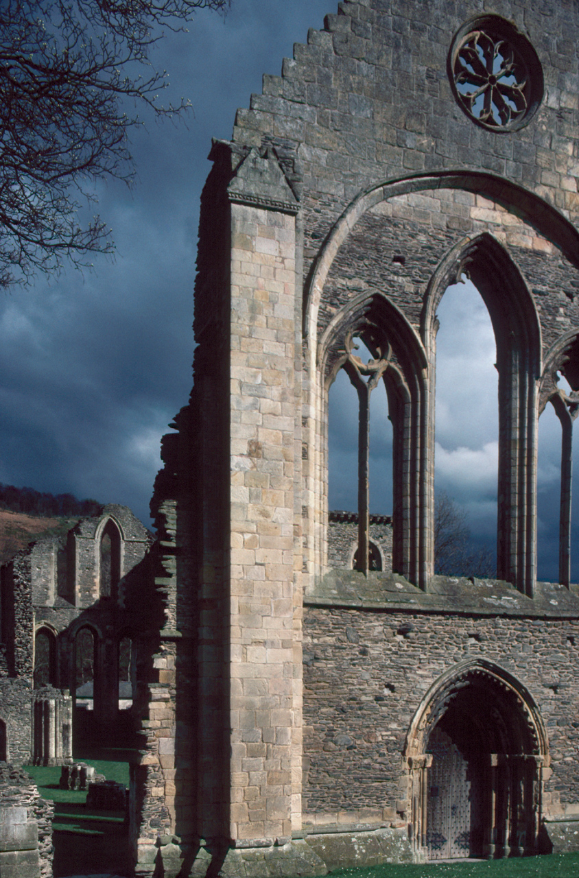 Village of Llangollen in North Wales/UK, Valle Crucis Abbey